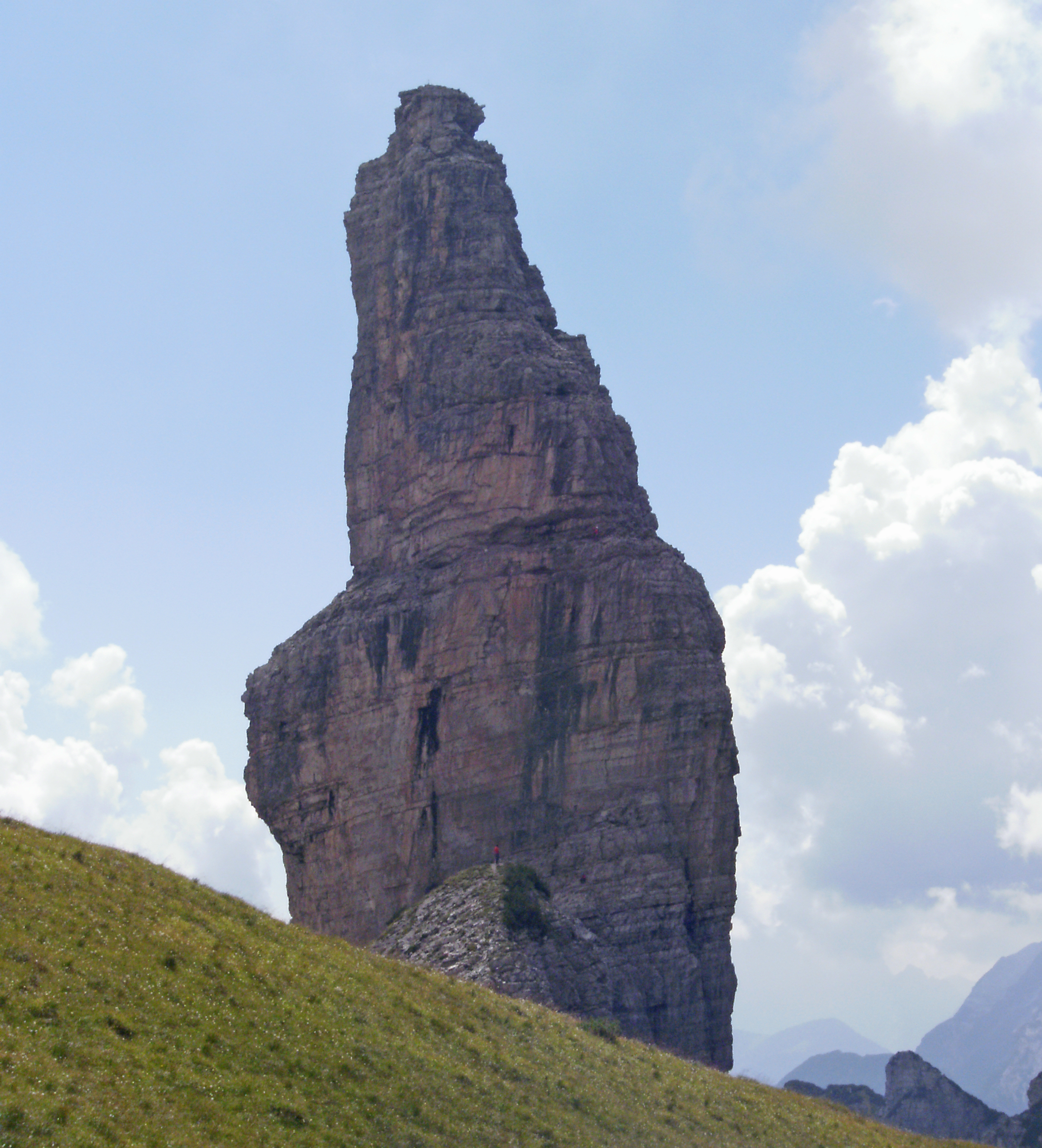 Campanile di Val Montanaia from NW